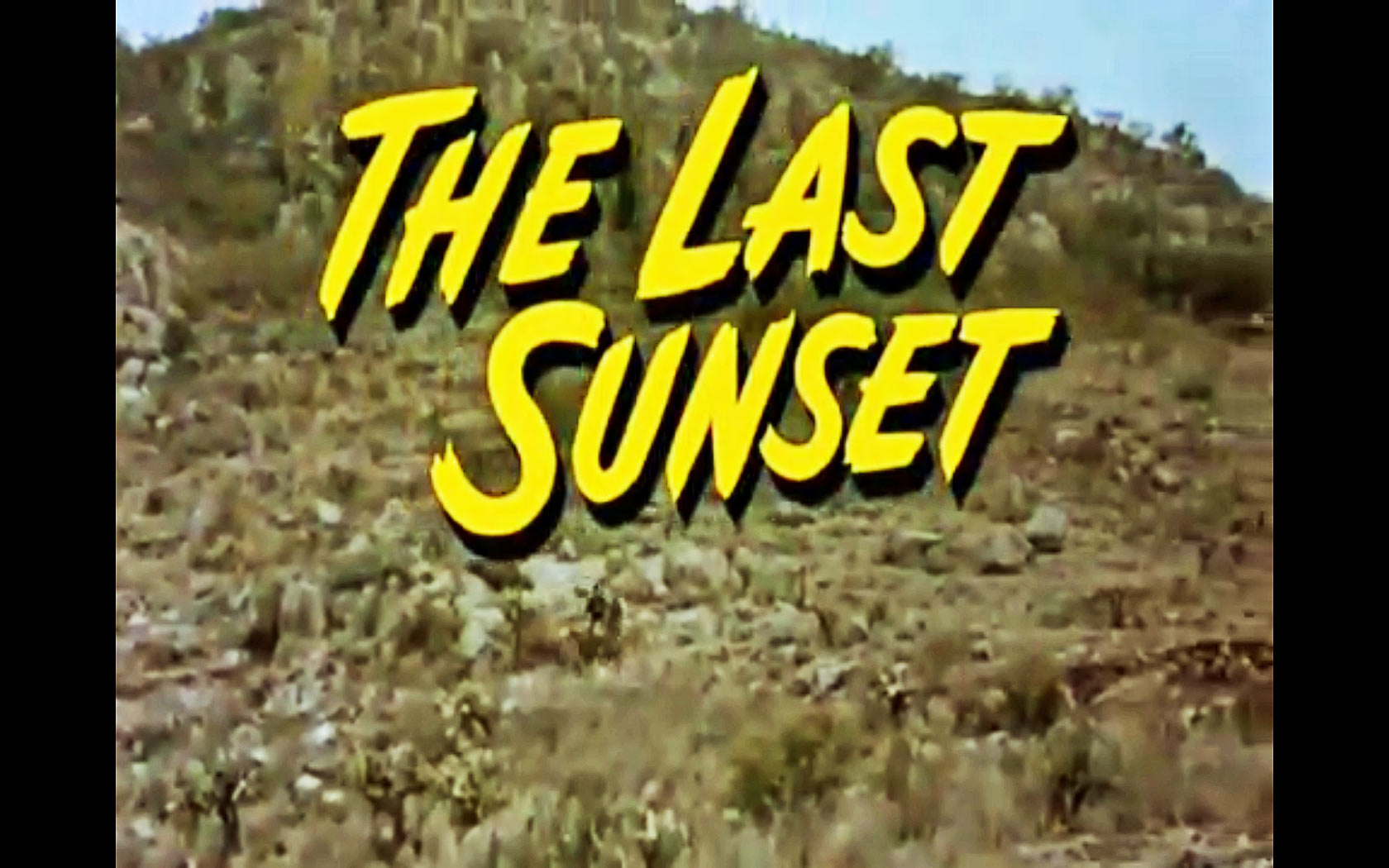 Screenshot from trailer for The Last Sunset (1961).